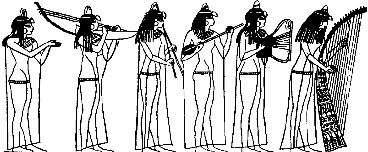 An illustration from the Encyclopaedia Biblica, a 1903 publication which is now in the public domain. Fig. 26 for article "Music". Image of an Ancient Egyptian Band, they hold a hand-harp, double flute, lute, lyre, and standing harp.